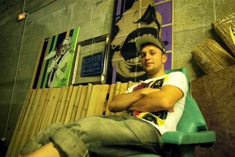 Max Berliti : french artist